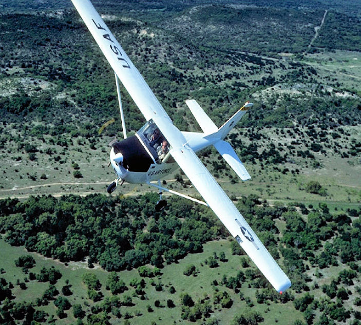 Hondo Cessna T-41 Mescalero